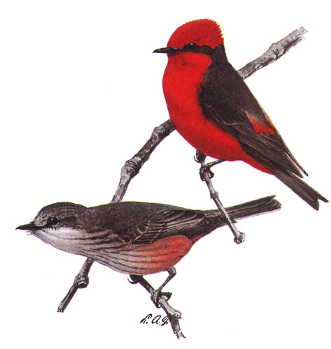 Vermilion Flycatcher, Pyrocephalus rubinus, male (above), and female (below). Offset reproduction of watercolor